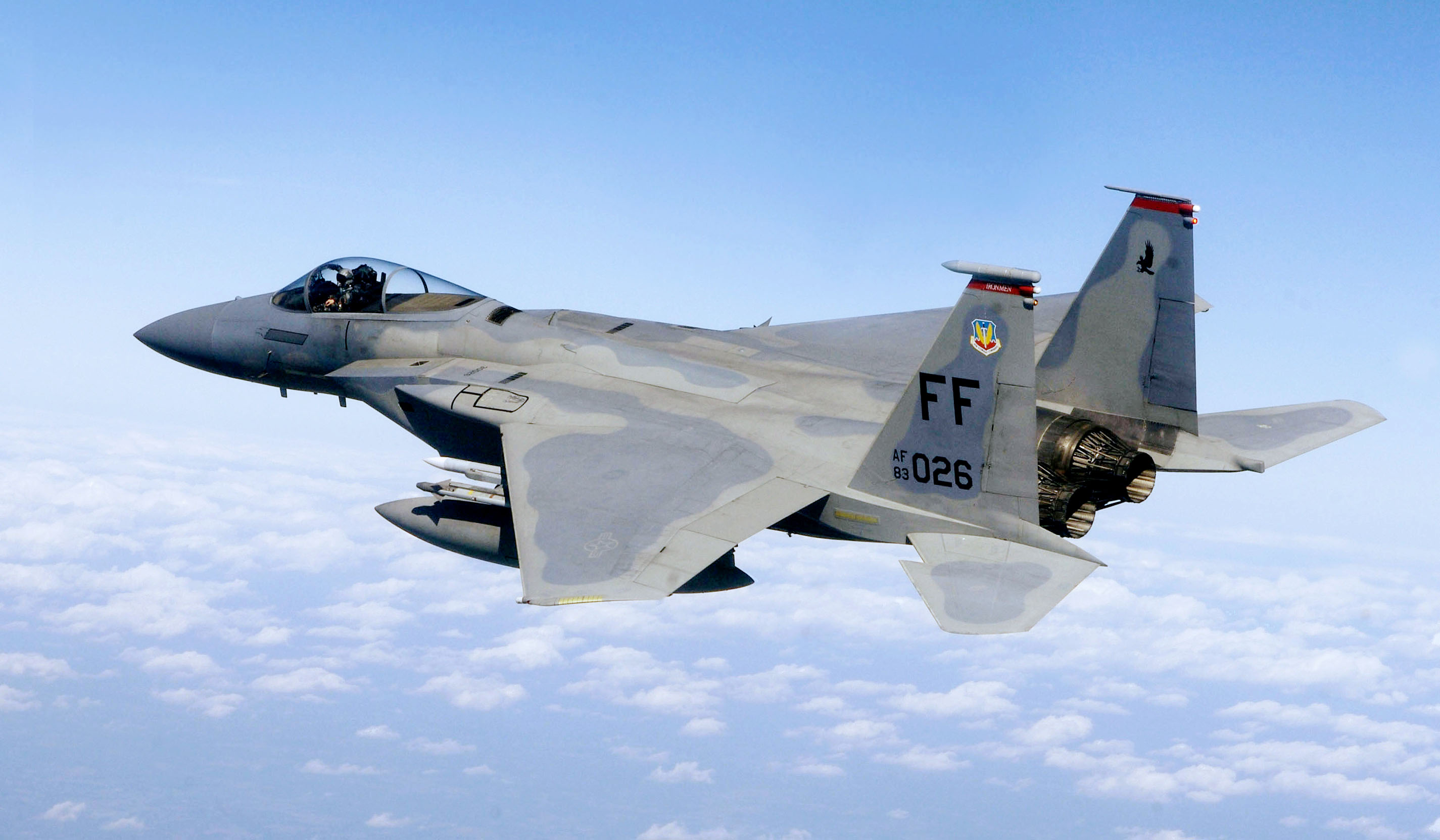 Capt. Matt Bruckner, an F-15 Eagle pilot assigned to the 71st Fighter Squadron, 1st Fighter Wing, at Langley Air Force Base, Va., flies a combat air patrol mission 7 October 2007 over Washington, D.C., in support of Operation Noble Eagle. The aircraft is a McDonnell Douglas F-15C-35-MC Eagle (s/n 83-0026).